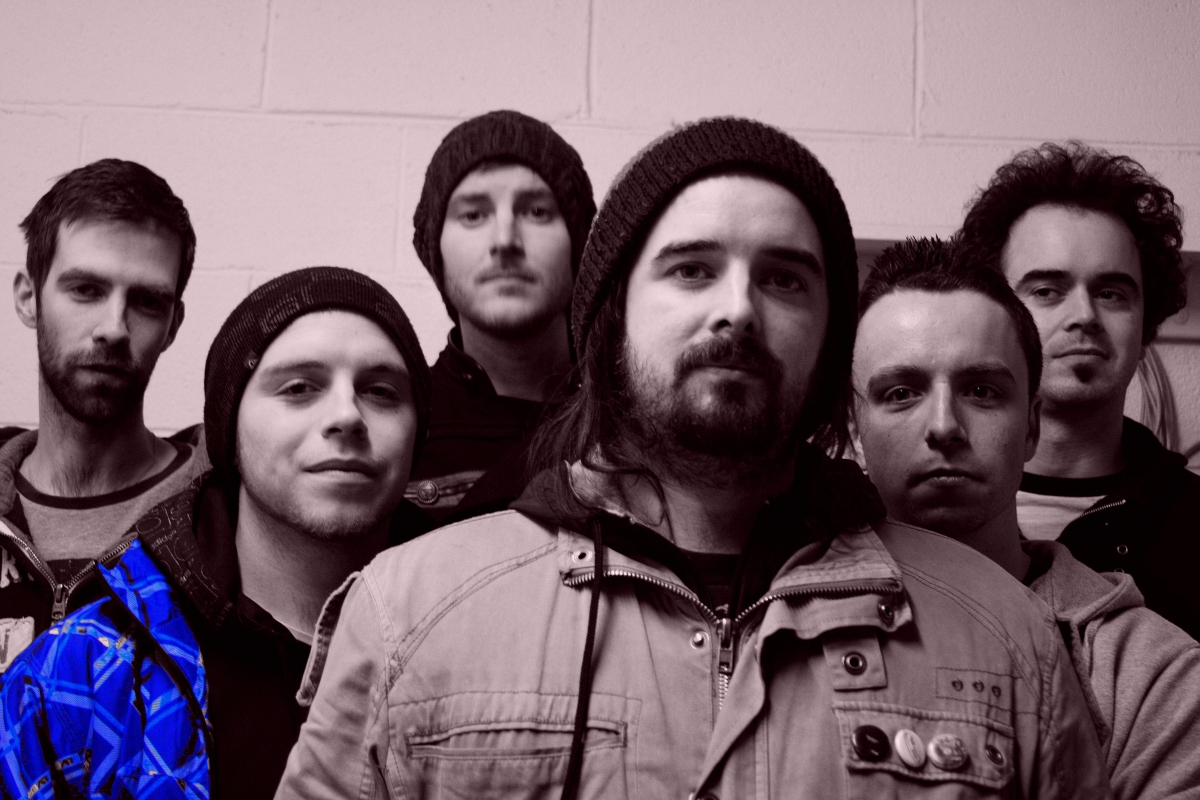 TKO 2011